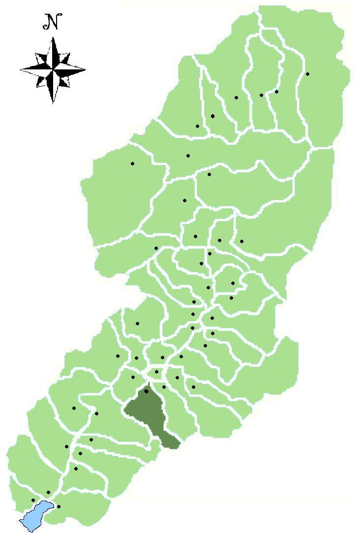 Map of the Comune di Esine, Valle Camonica